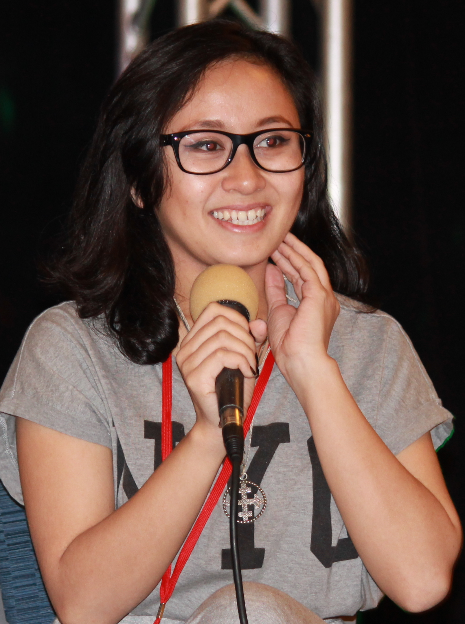 Christine Marie Cabanos at Animate Miami in 2014